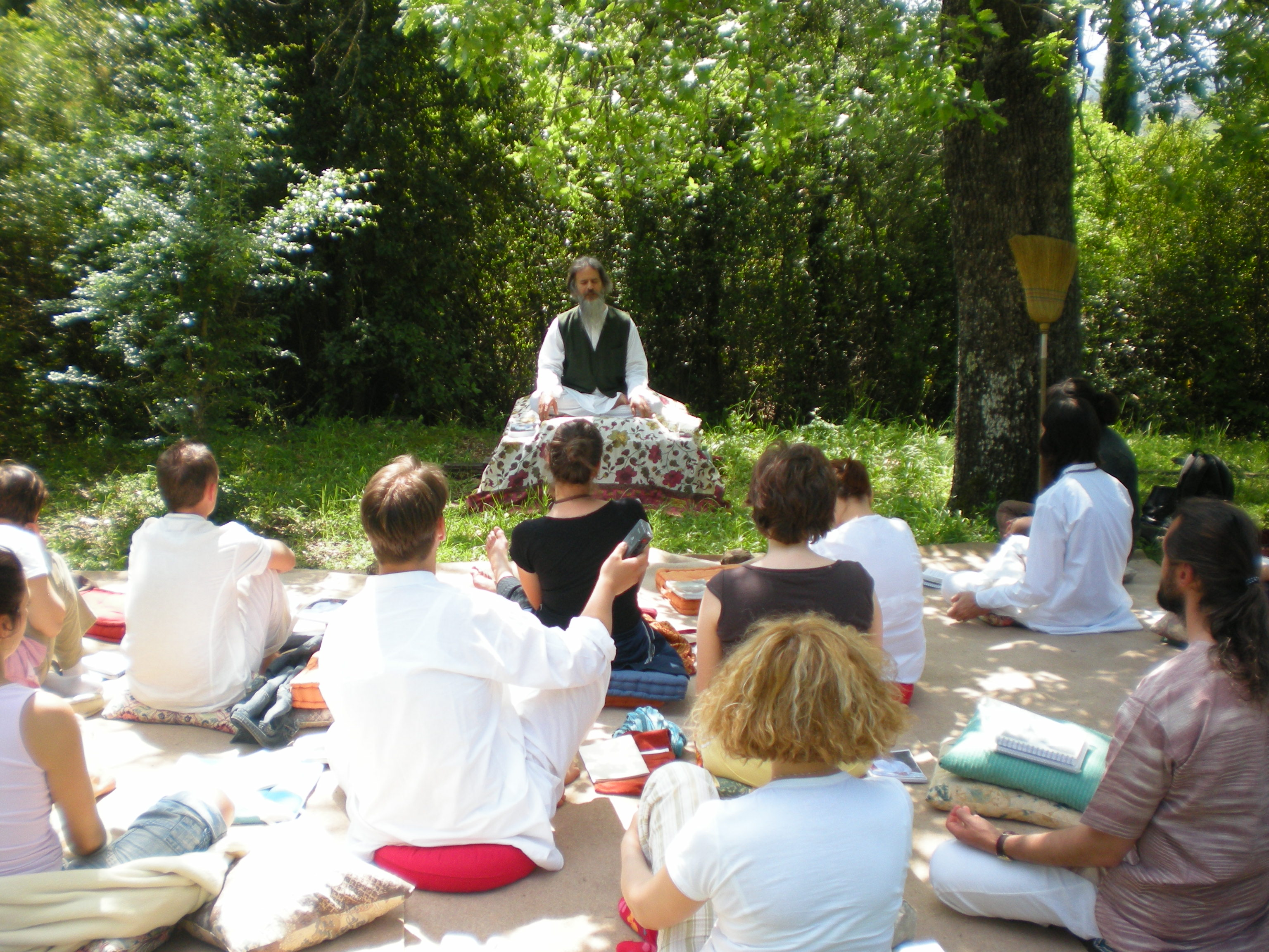 Satsang with Sirio Carrapa in Sant Bani Ashram (Ribolla).